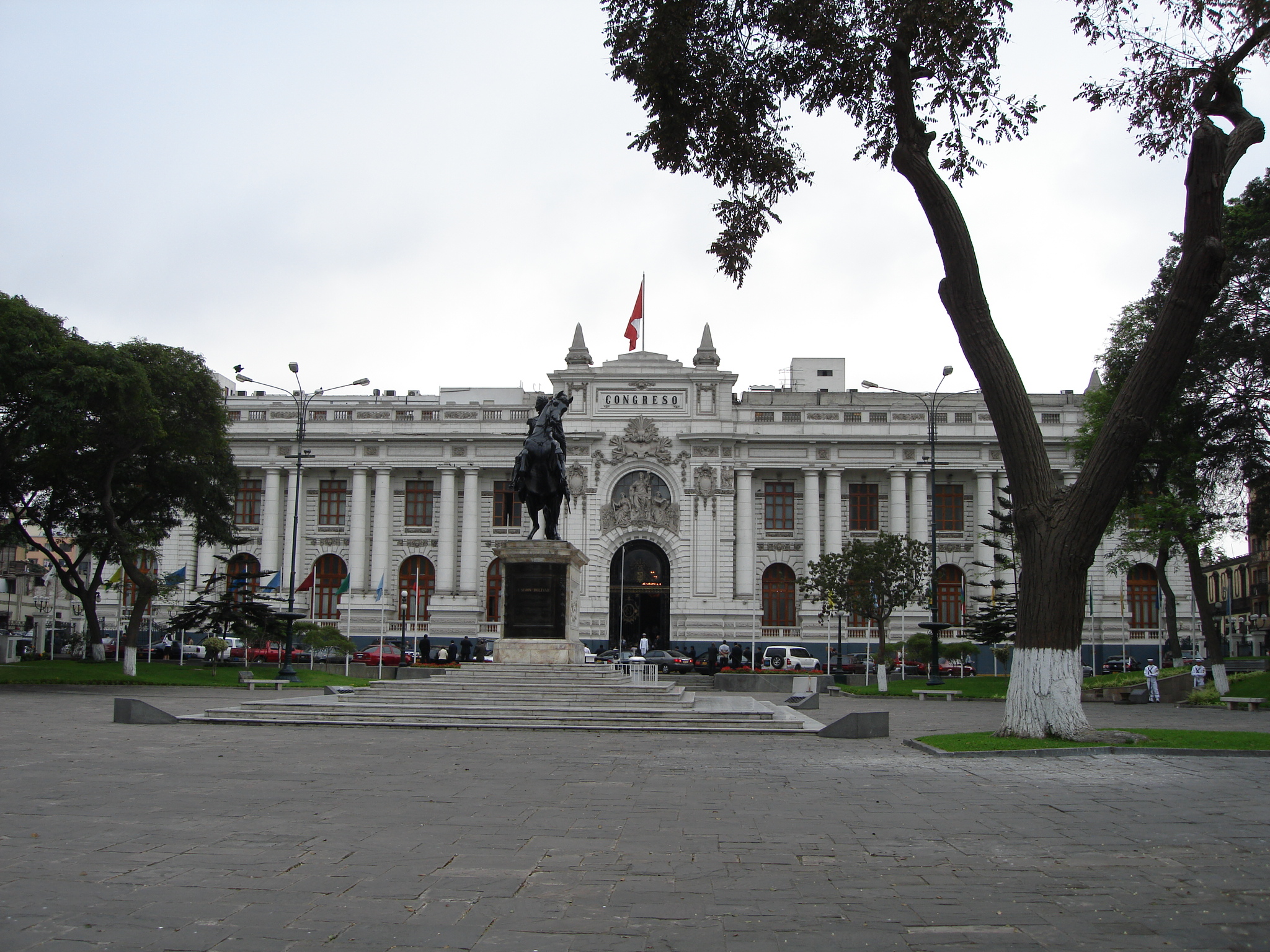 Description: Congress of Peru City: Lima Country: Peru Photographer: © Victoria Alexandra González Olaechea Yrigoyen Shot date : December, 6th, 2006